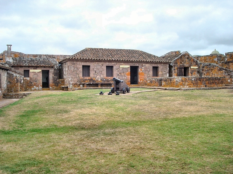 Fuerte San Miguel, 8km west of Chui, near the border with Brazil, Uruguay.